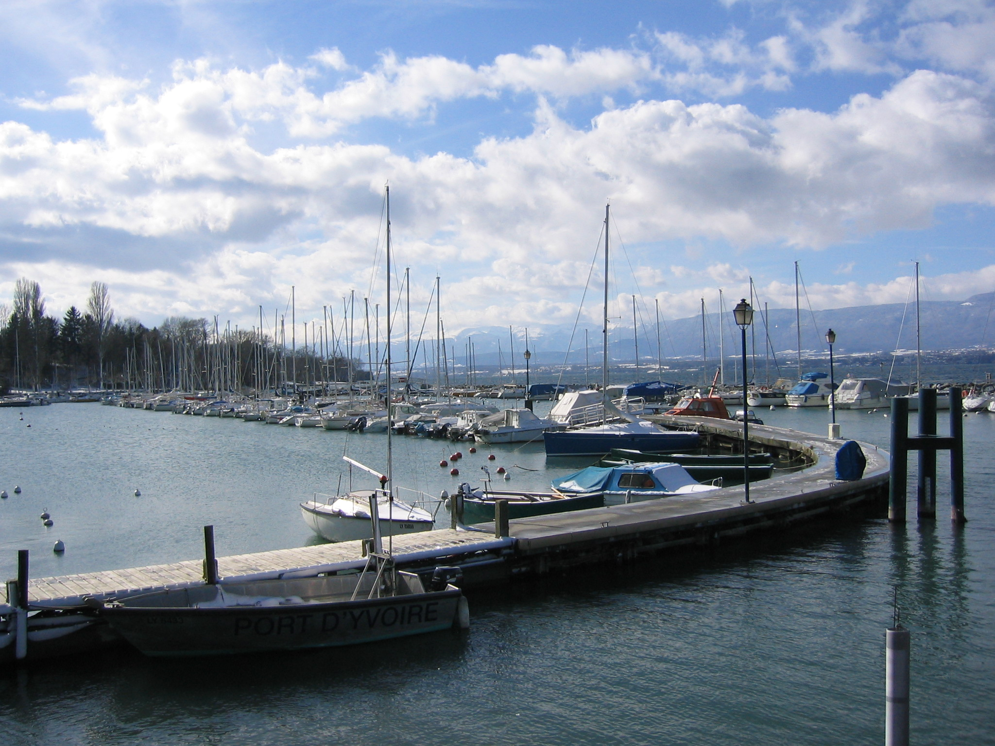 Yvoire port (Haute-Savoie, France)